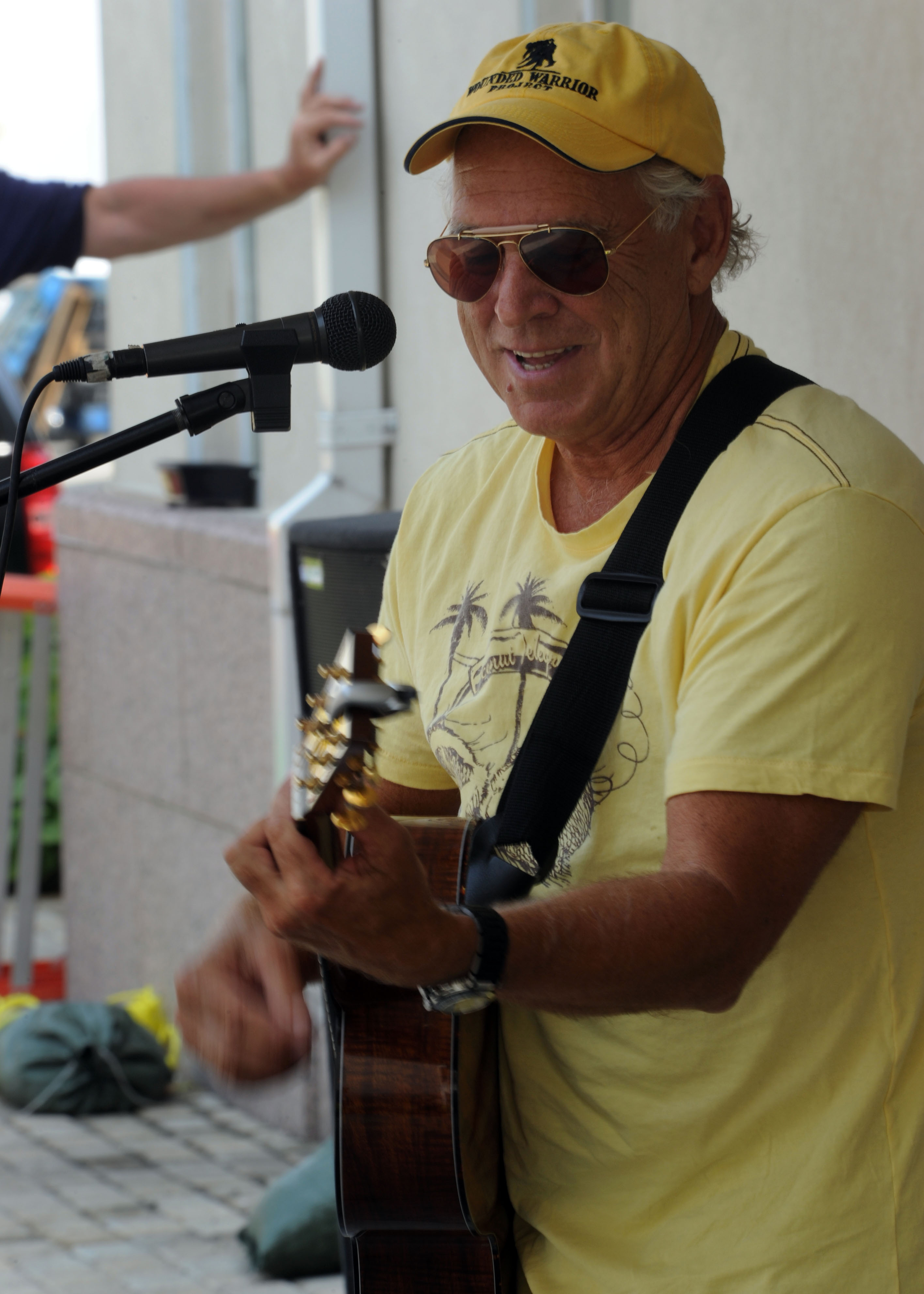 Musician Jimmy Buffet performs for members of Joint Task Force Haiti behind the U.S. Embassy in Port-au-Prince, Haiti, March 3, 2010.